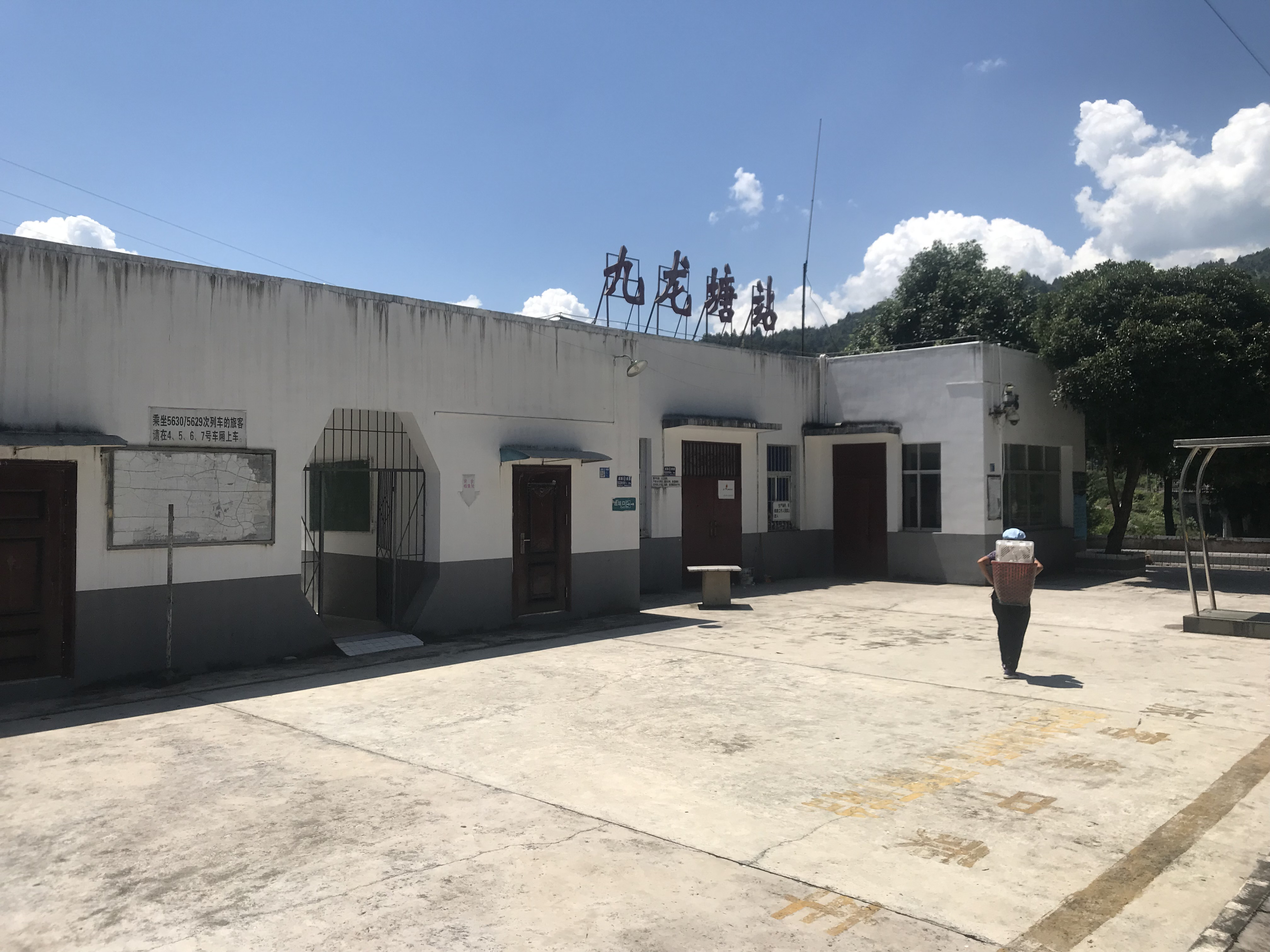 Finally made it...the "Kowloon Tong Station", when will be the "Admiralty station" and "Caohai Station (Formerly Weining Station)" on Neijiang-Liupanshui Railway get done?